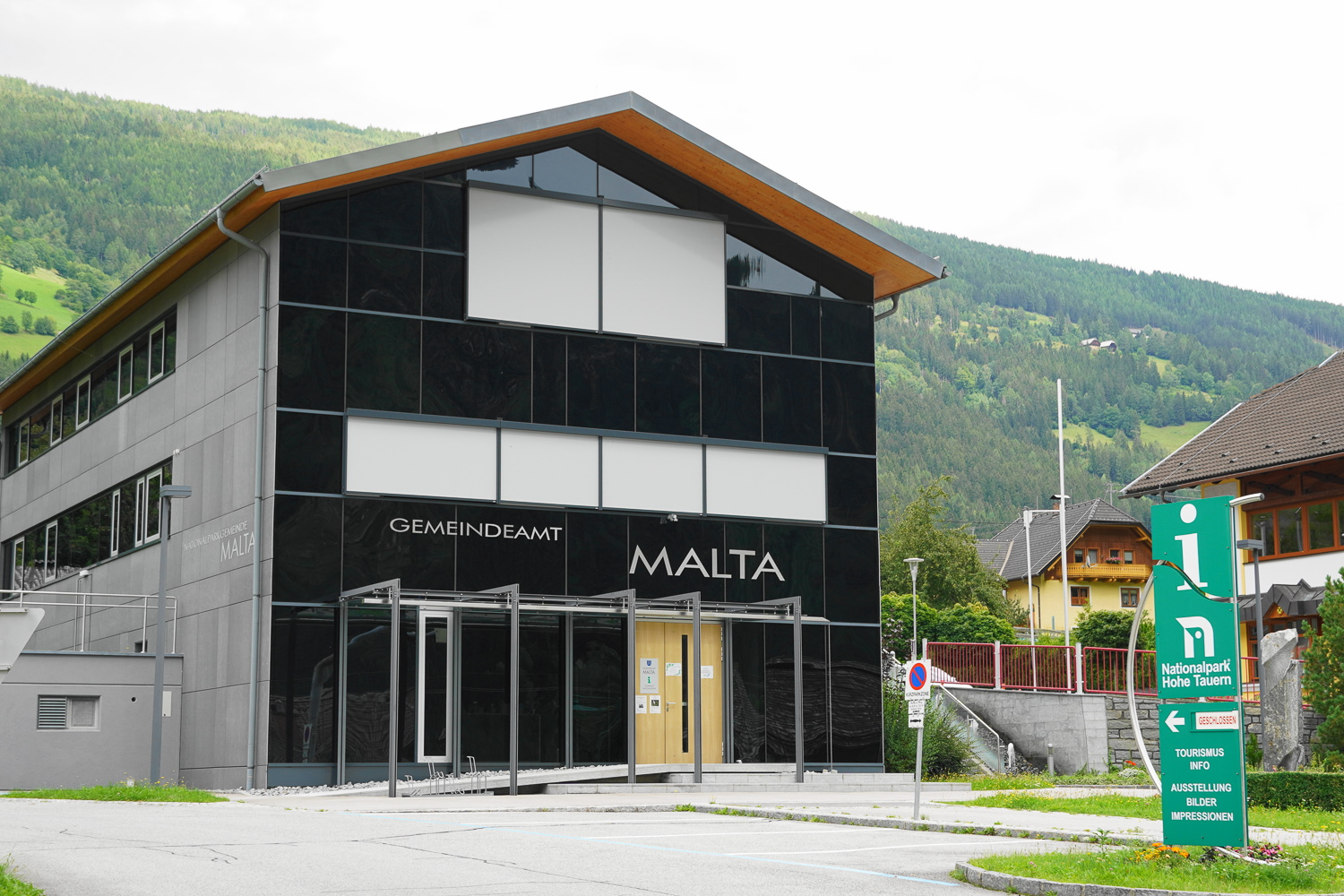 Municipal office in the community Malta